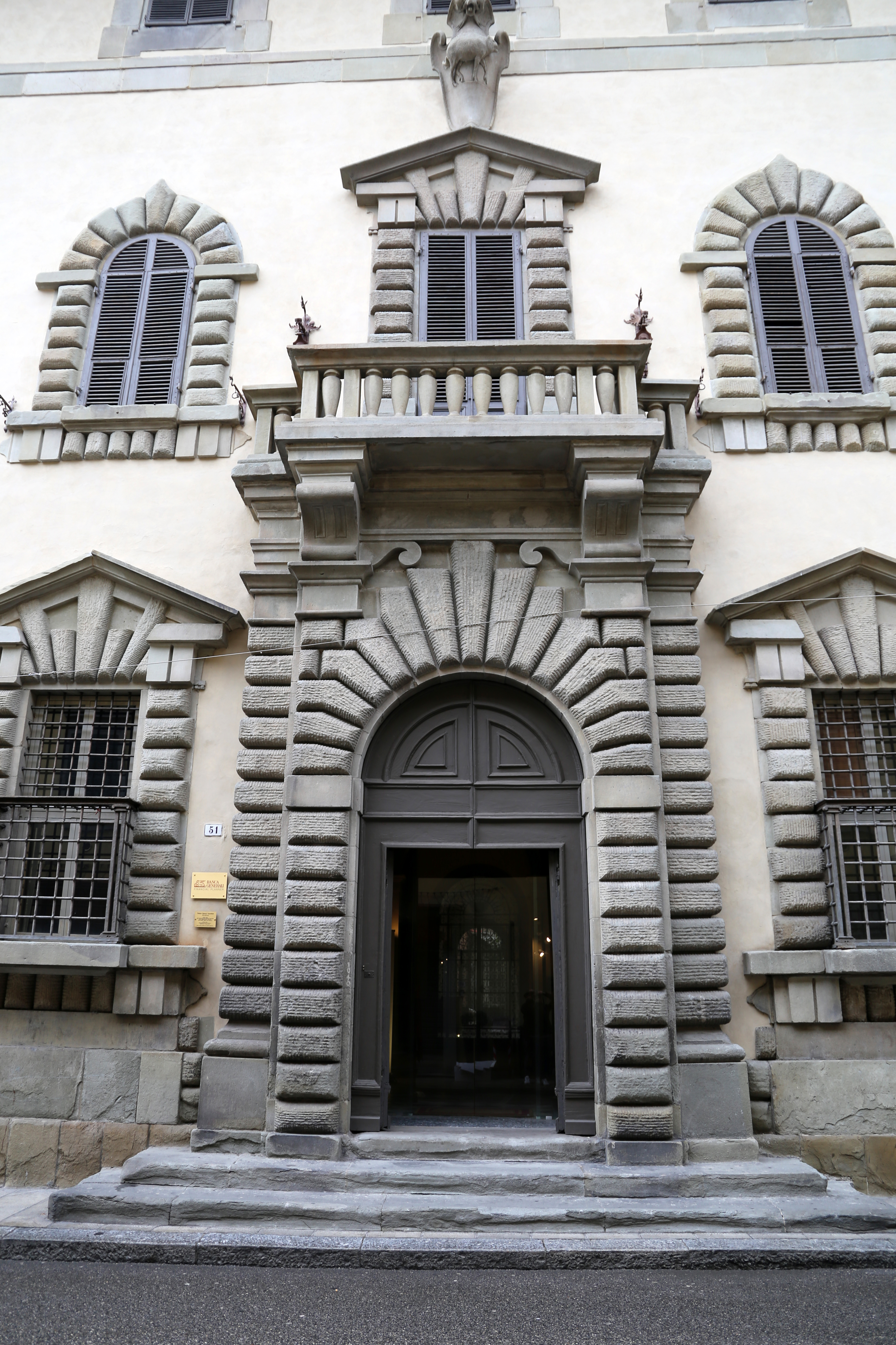 Palaces in Pistoia